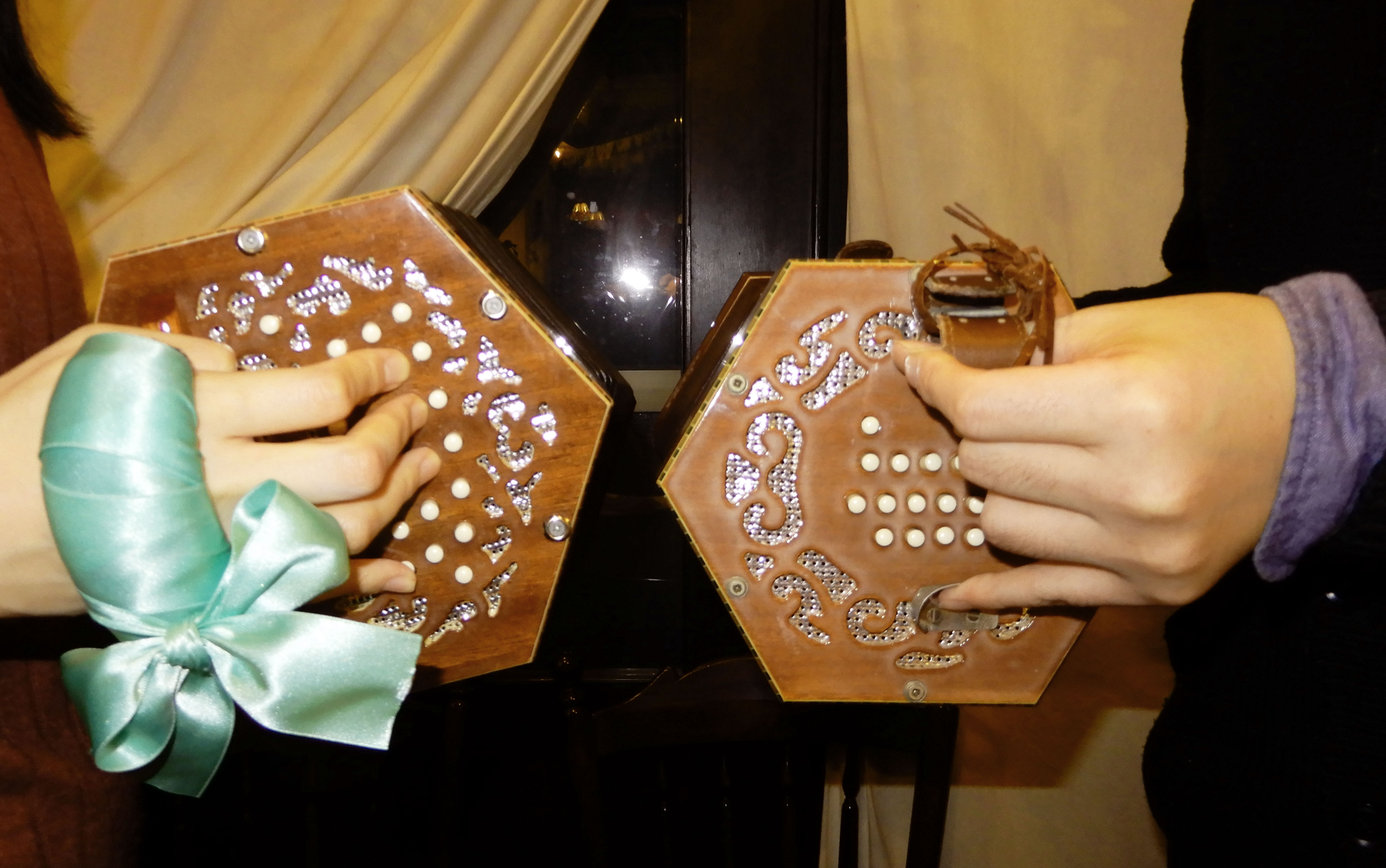 This photo was taken at the monthly event entitled BANDONEON TOMO NO KAI (Meeting of Bandoneons' Friends) which is held at the cafe HOMERI, 2f., BOW Building, San'ei-cho 25-33, Shinjuku City, Tokyo.